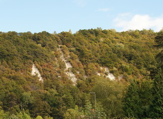 Yew and Box trees growing on The Whites - note that the soil is so thin, that bare chalk rock is visible in several places.